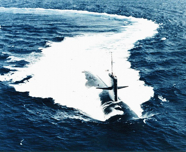 USS Pogy (SS-647); Pogy (SSN-647), underway, date and place unknown. US Navy photo courtesy of COMSUBGRU NINE web site.